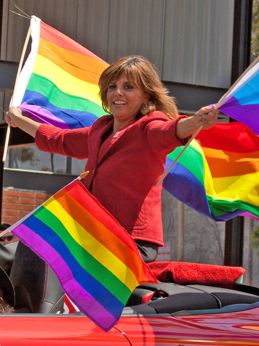 Jane Velez-Mitchell, Red Porche, Pride Parade 2010 Crescent, West Hollywood, CA, US